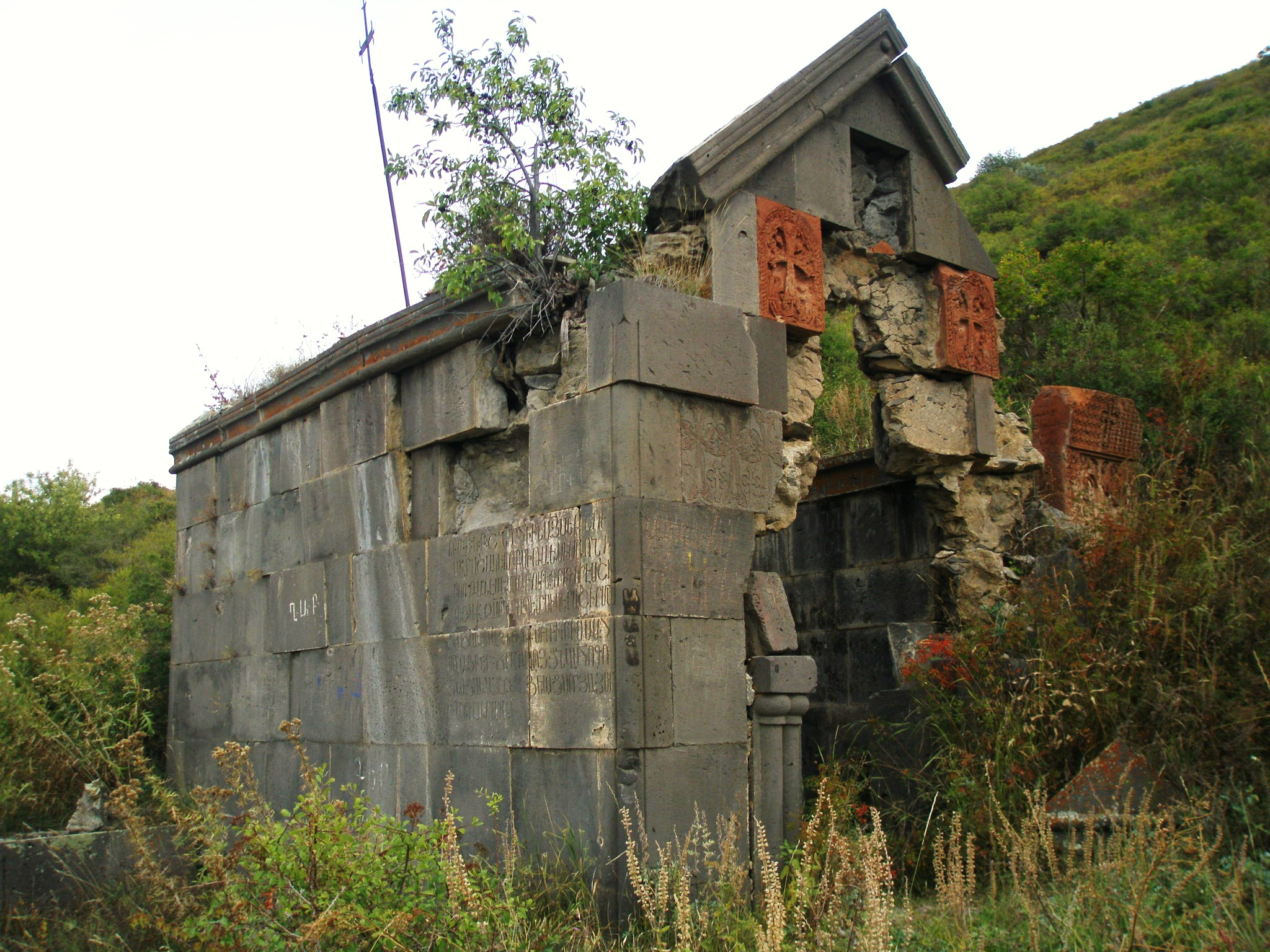 Shrine located near Havuts Tar 99.4/3.1.3